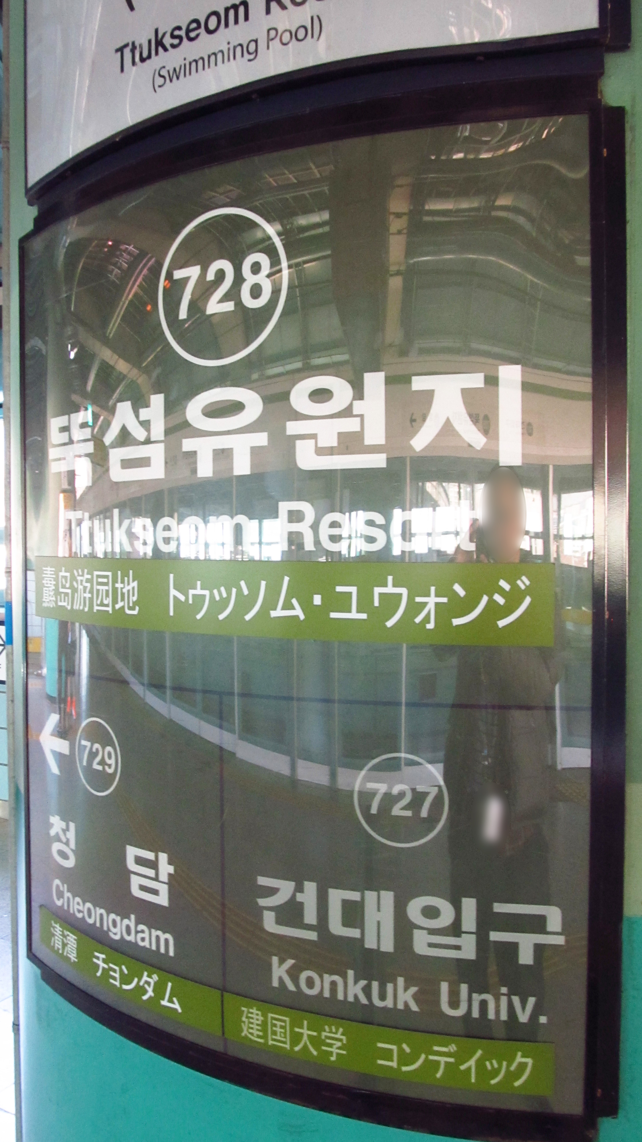 A sign of Ttukseom Resort Station on Seoul Subway Line 7